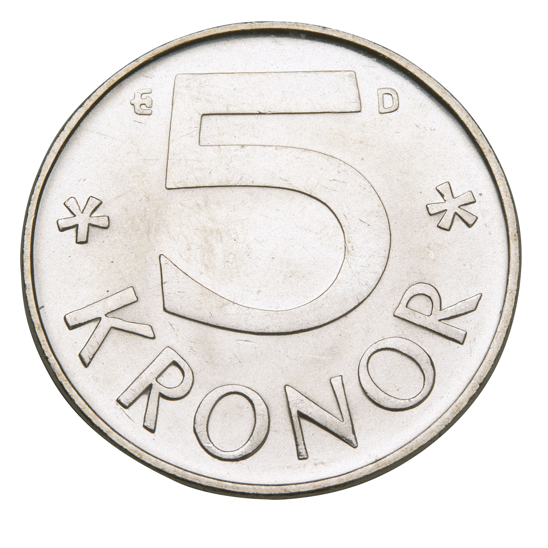 The upside of a Swedish femkrona from 1986-1993.